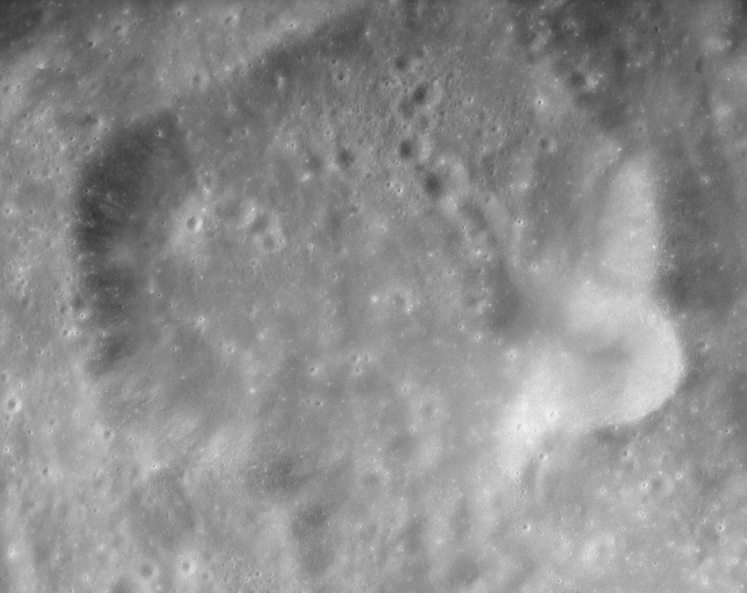 Slightly oblique view of most of Kreiken, on the far side of the moon.